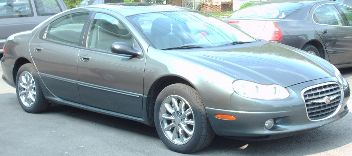 2002-2004 Chrysler Concorde photographed in Montreal, Quebec, Canada.